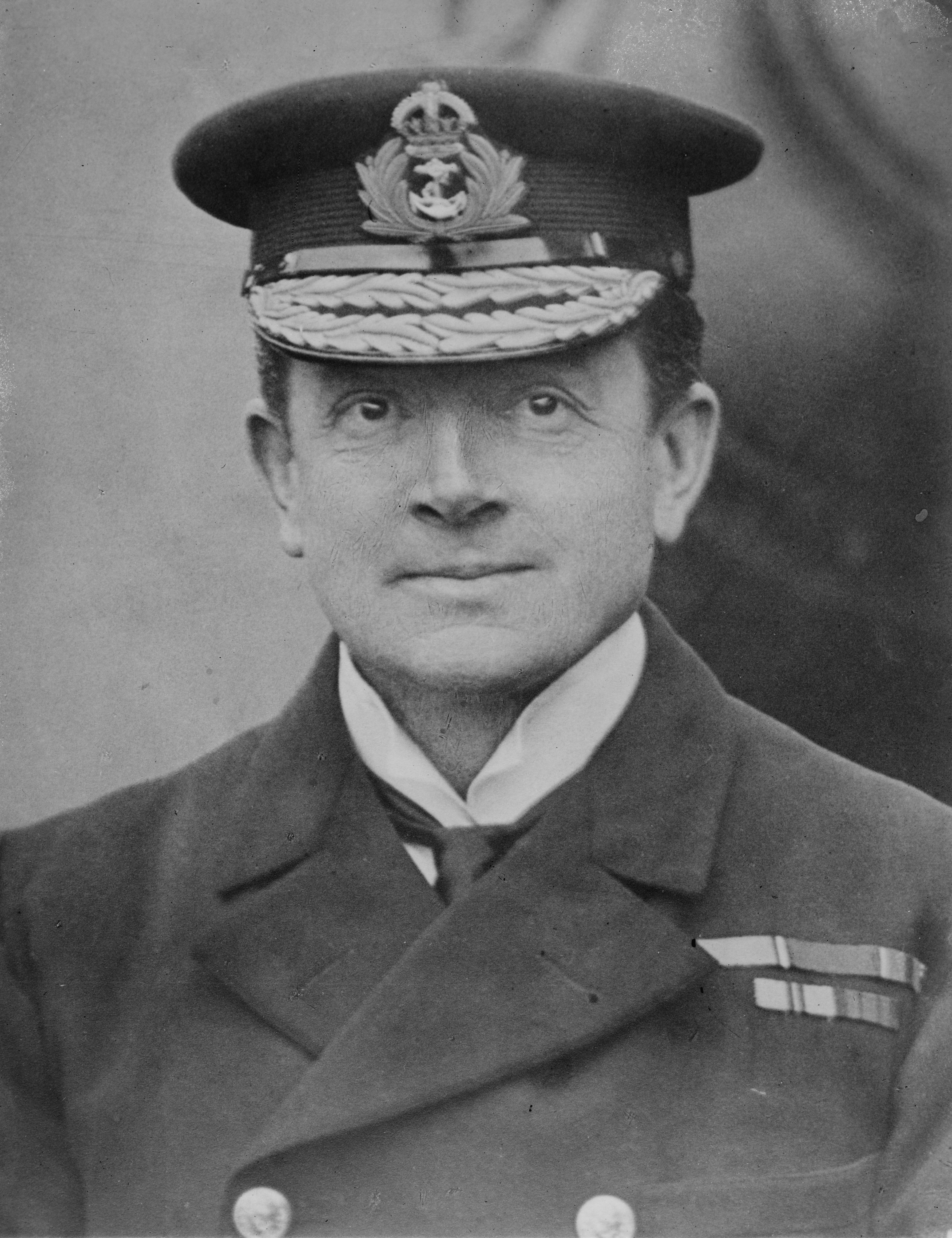 Calthorpe as a Flag Officer